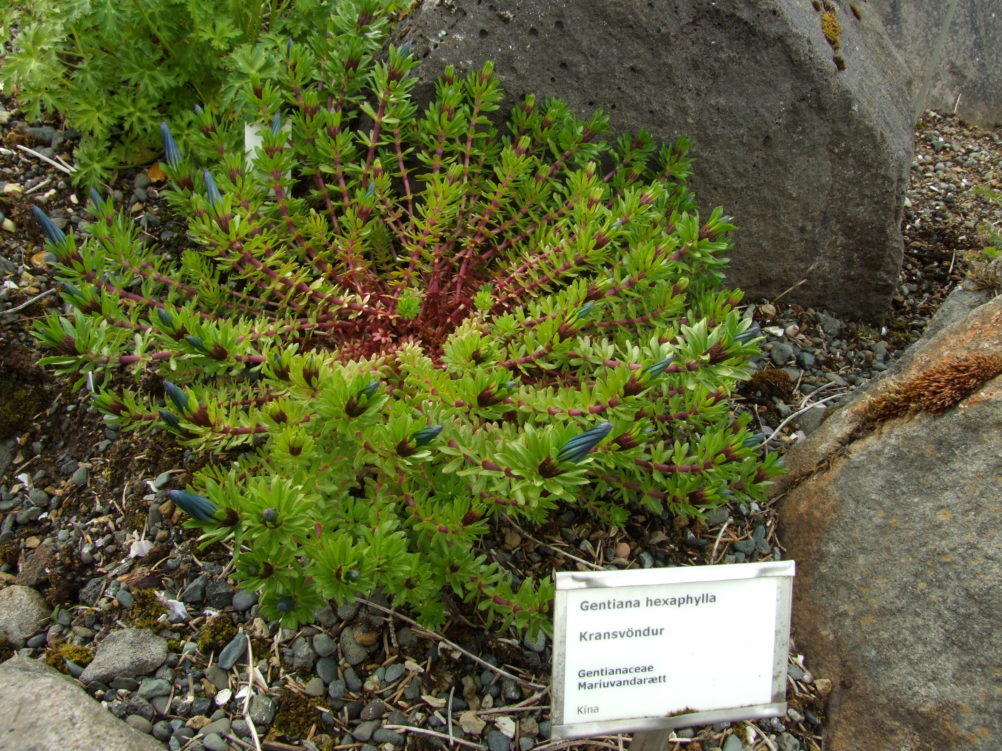 Gentiana hexaphylla (Reykjavík BG)